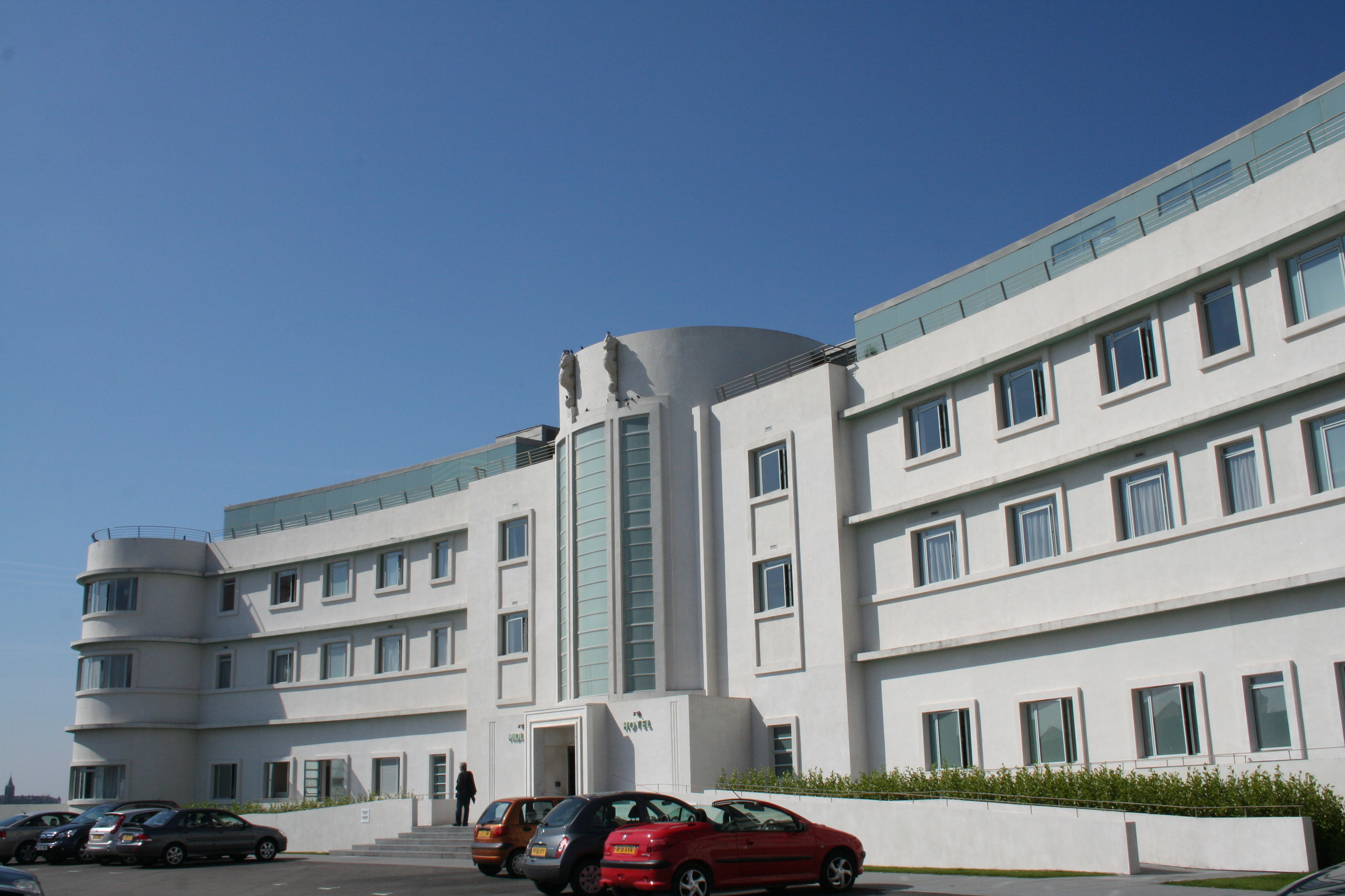 Midland Hotel, Morecambe, Lancashire, England.